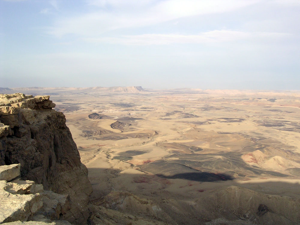 Makhtesh Ramon in Israel.